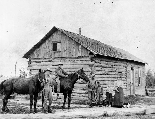 Author Unknown Source LC centennial Book Picture taken before 1850, author assumed dead for more than 100 years